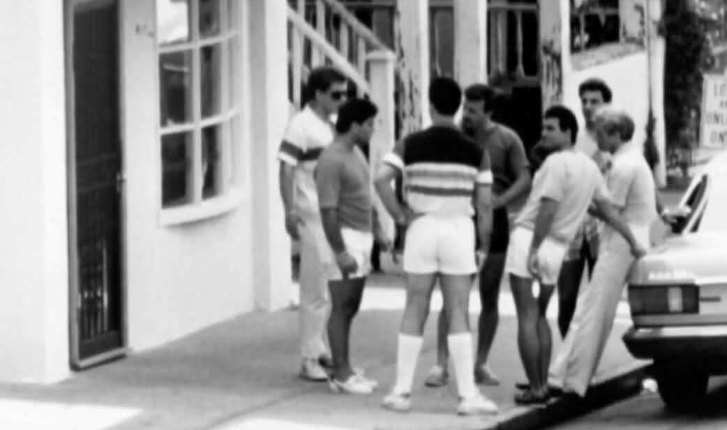 Scarfo-era Philadelphia crime family mobsters including Phil Leonetti, Joey Pungitore, Philip Narducci & Nicholas Milano